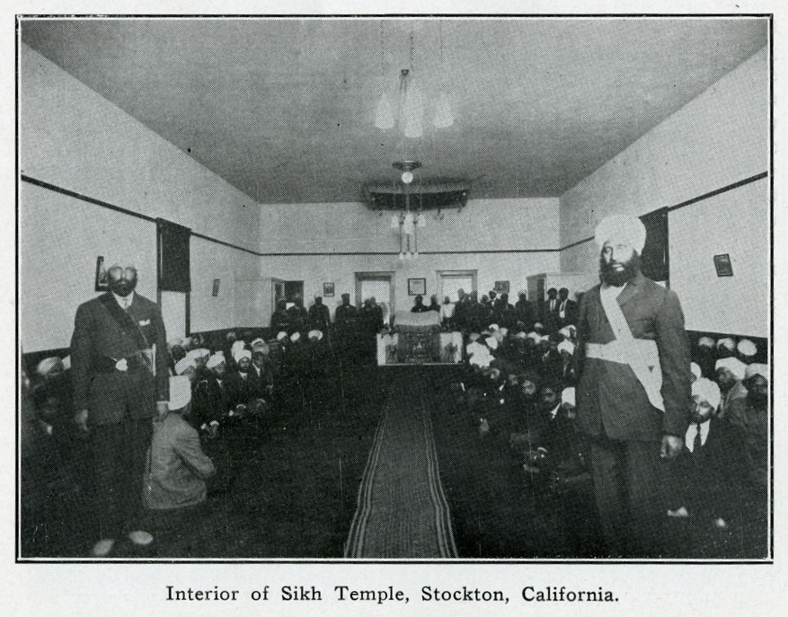 Interior photograph of the Stockton Gurdwara printed in the January 1916 issue of The Hindusthanee Student.